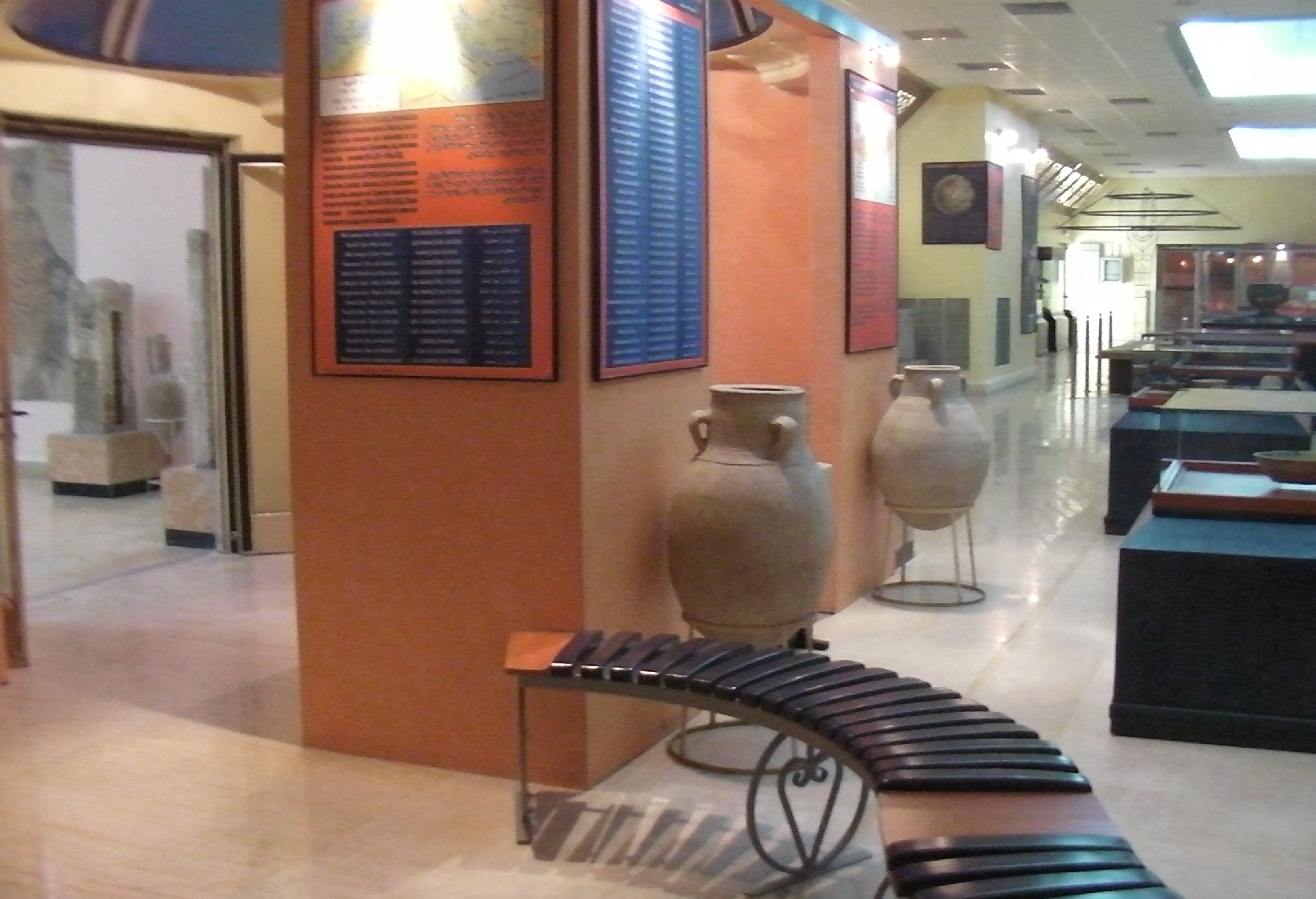 Interior of the National Museum of Aleppo (متحف حلب الوطني) in Syria